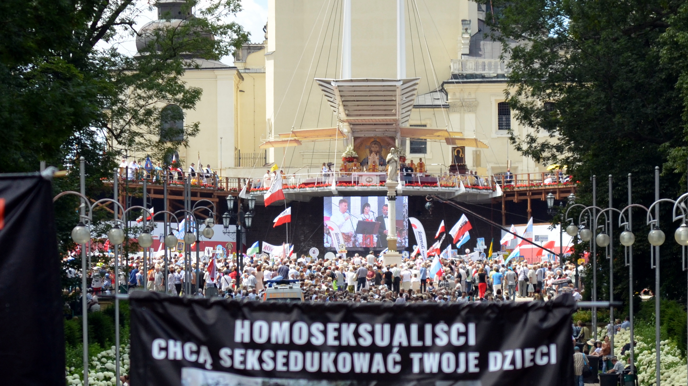 27th pilgrimage of Radio Maryja Family at Jasna Góra monastery